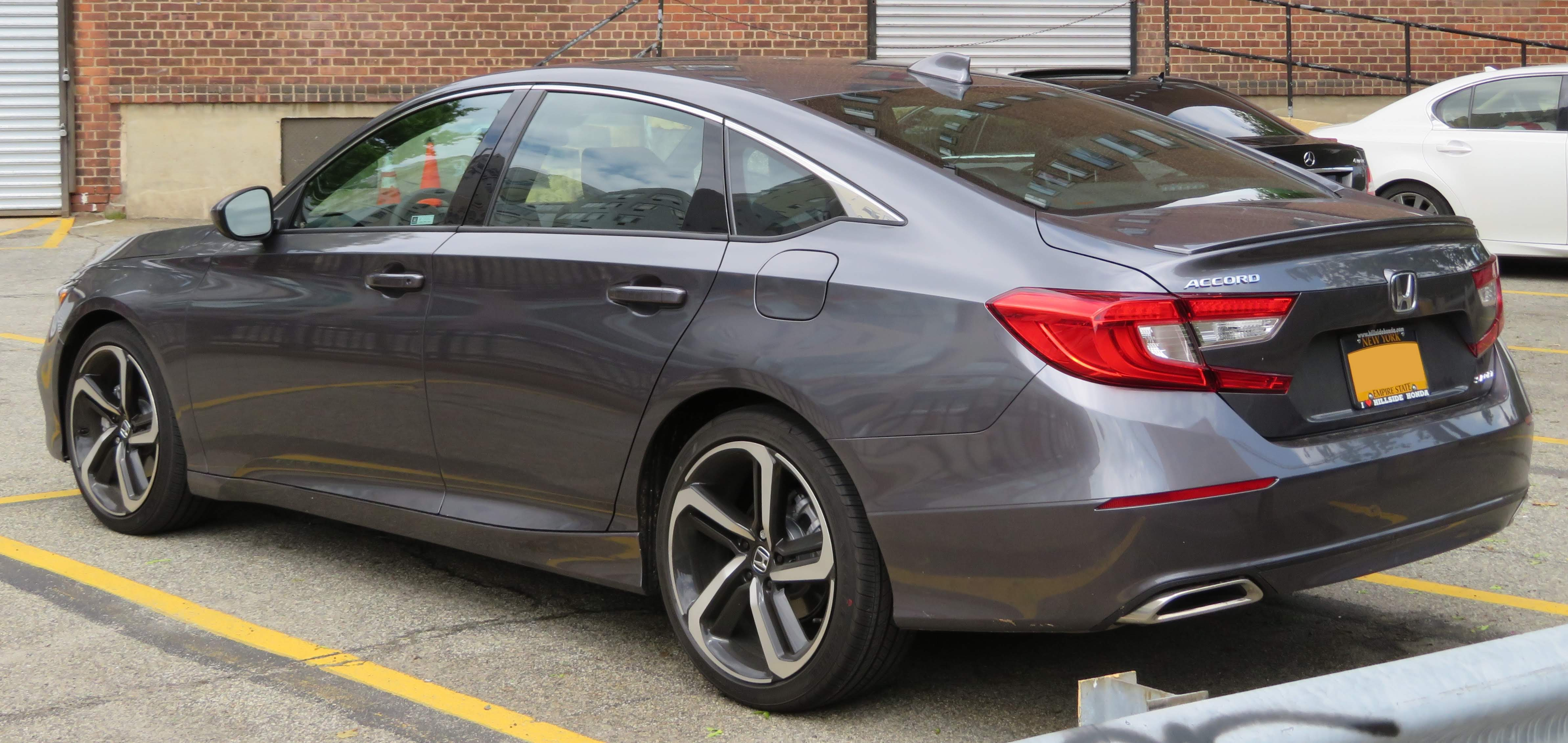 In Bayside, New York.